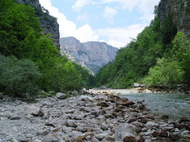 The beach of Baumes-Fères.